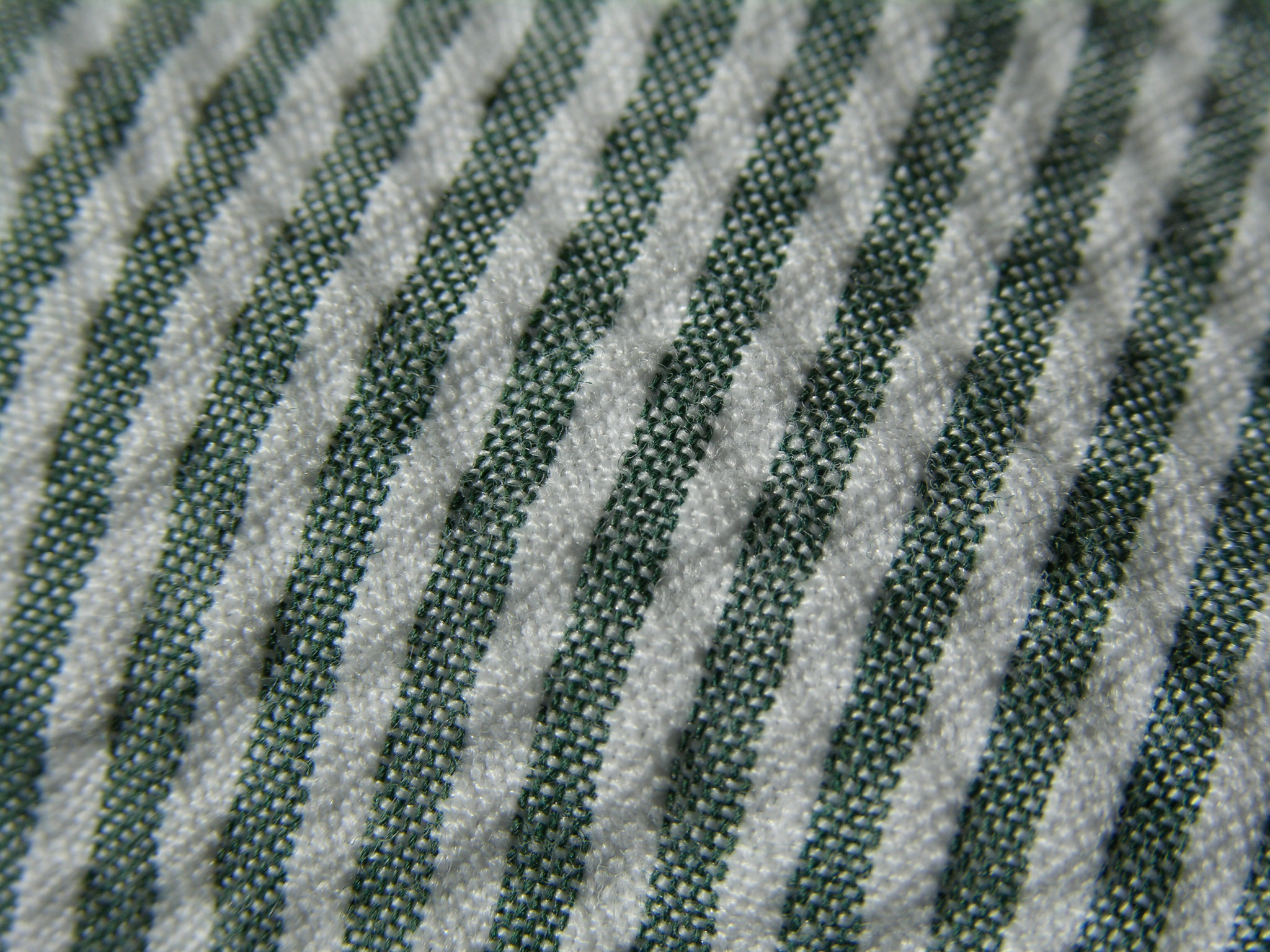 Close up image of green/white striped seersucker fabric showing the weave detail.